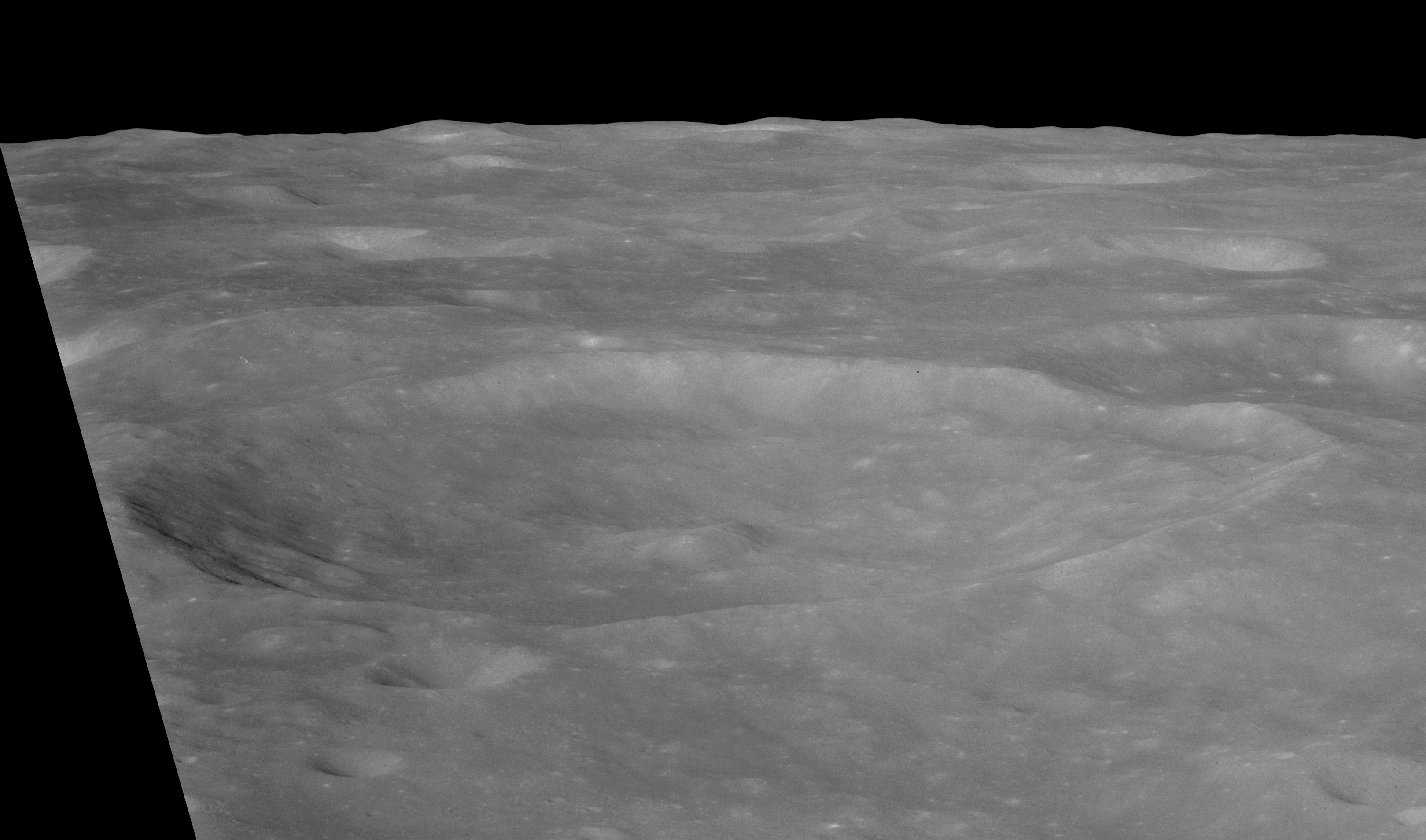 Oblique view of Krasovskiy crater. Rotated, and contrast and brightness adjusted from original.